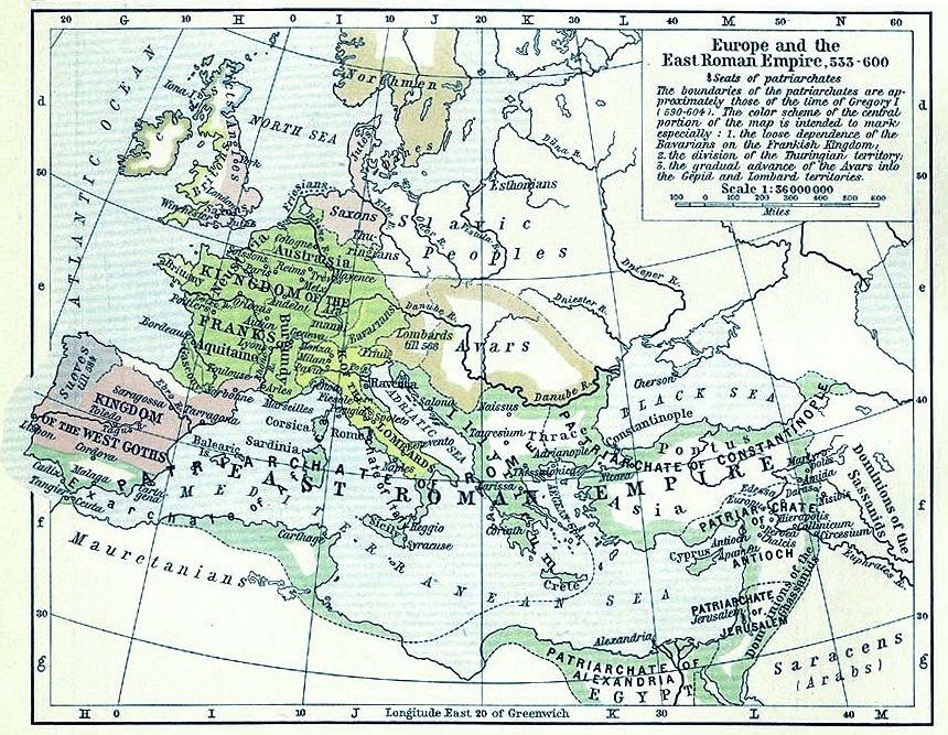 A map political map of Europe, situation as of c. 526-600